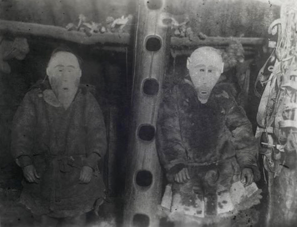 Koryak men in masks. Siberia, Russia, 1901. Taken during Jesup North Pacific Expedition